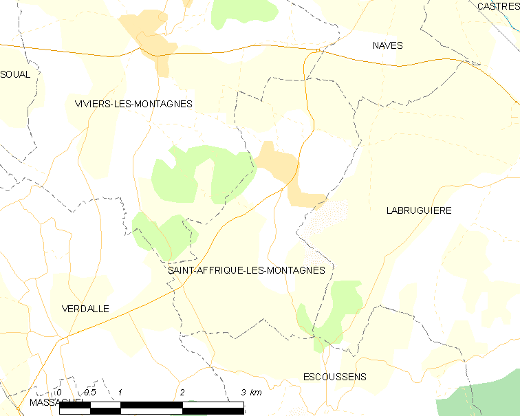 Map of French municipality Saint-Affrique-les-Montagnes